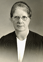 Photograph of the Danish women's rights activist Thora Pedersen